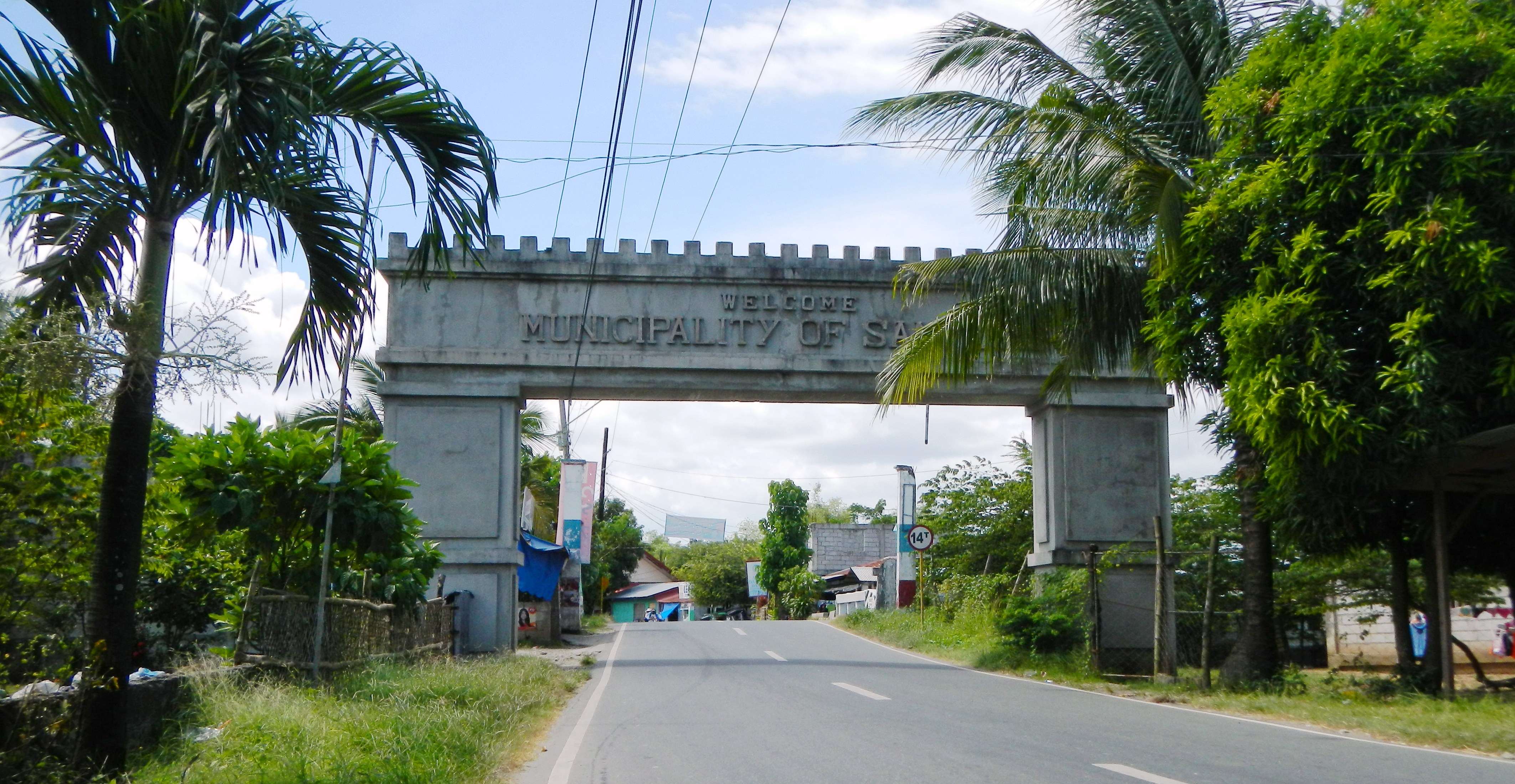 San Luis, Pampanga